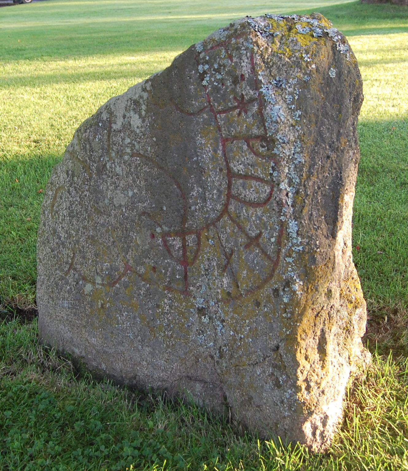 Runestone Sm 76